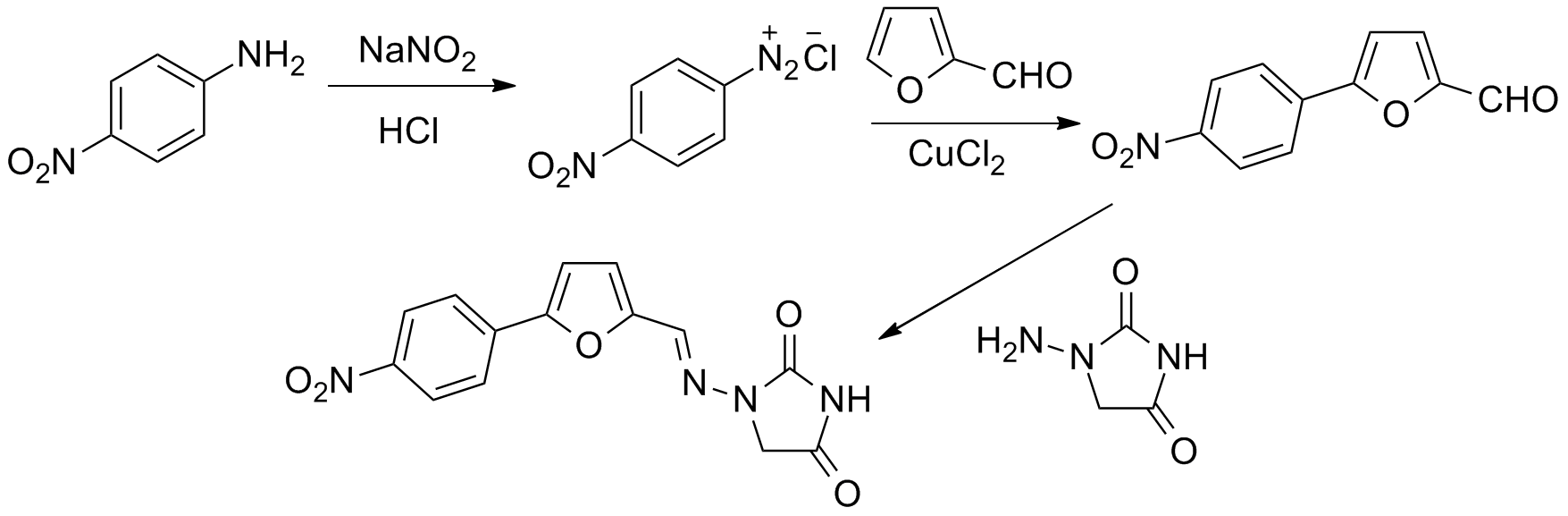 US 3415821